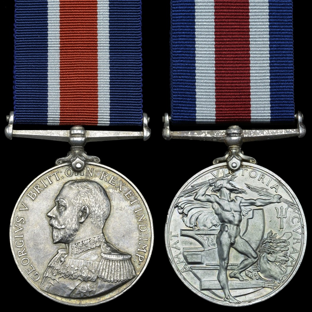 The King George V version of the Naval Good Shooting Medal, showing both ribbon versions